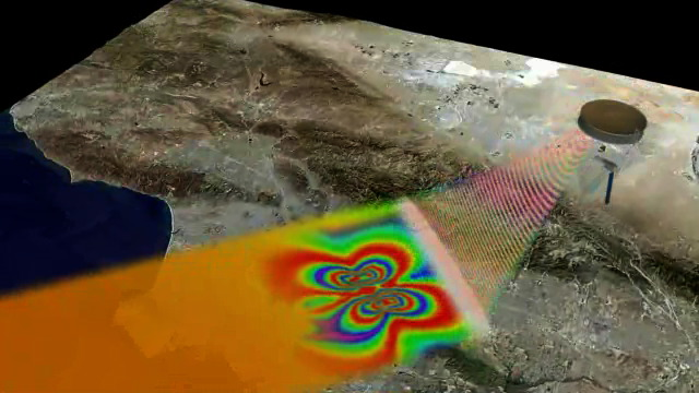 Screenshot of an animation from a NASA website. The animation demonstrates an "InSAR satellite" measuring small scale changes in the earths crust.